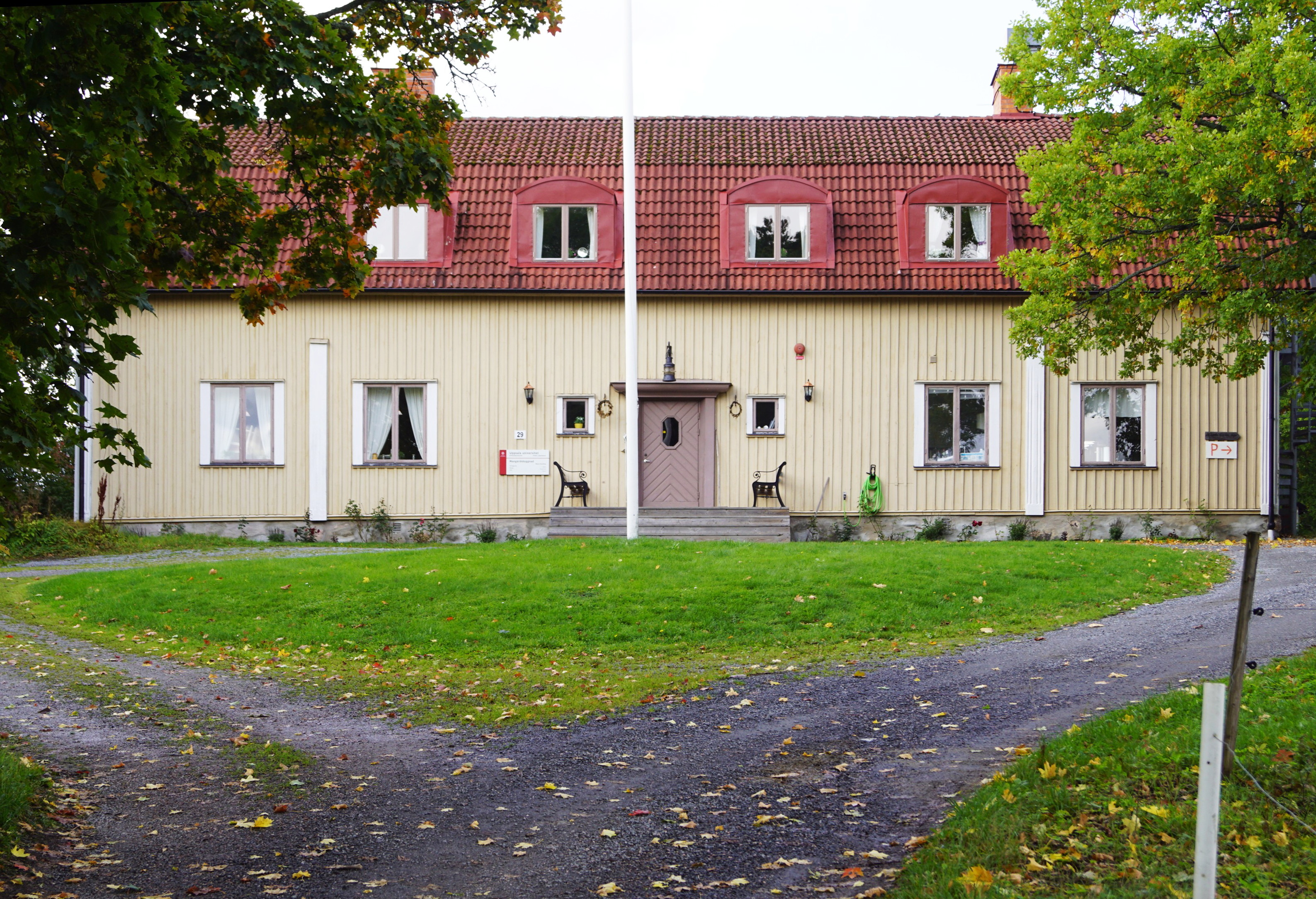 Norra Malma mansion in Estuna Parish, Norrtälje Municipality, Uppland Sweden.